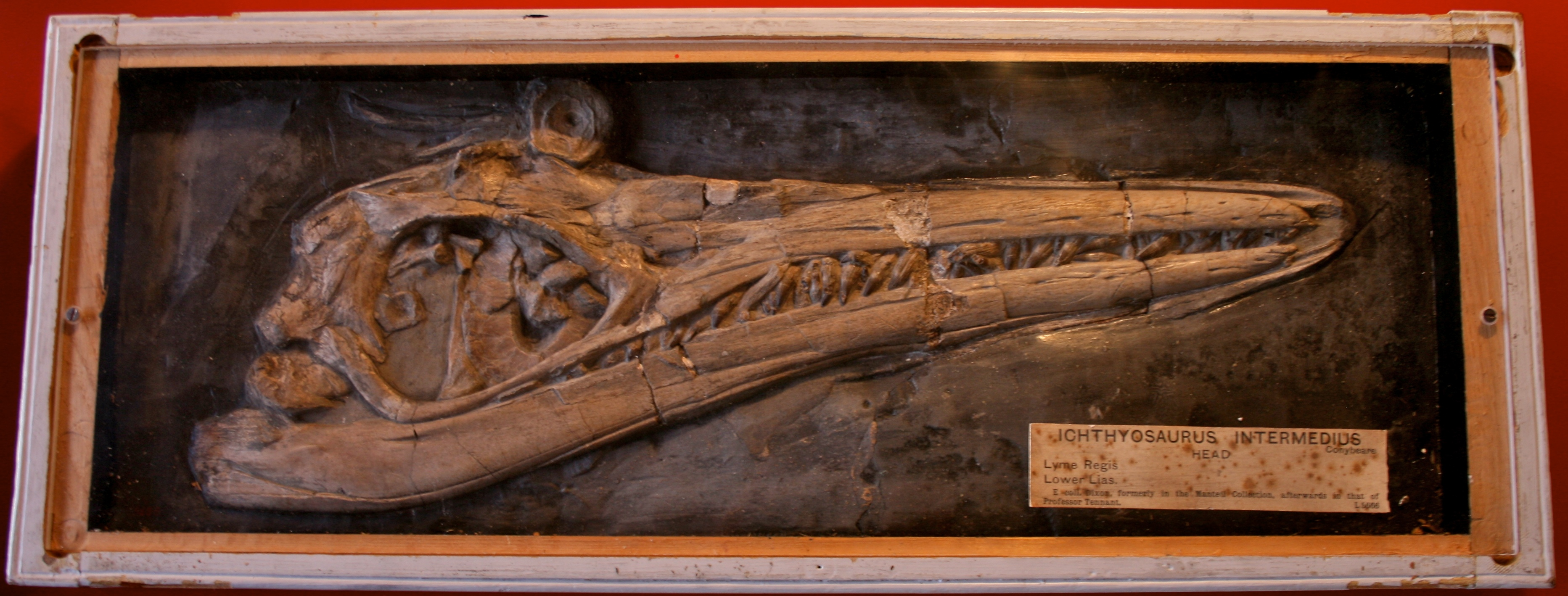 Ichthyosaurus intermedius head. Conybeare. Lyme Regis, Lower Lias. E coll. Dixon, formerly in the Mantell Collection, afterwards in that of Professor Tennant. L5666